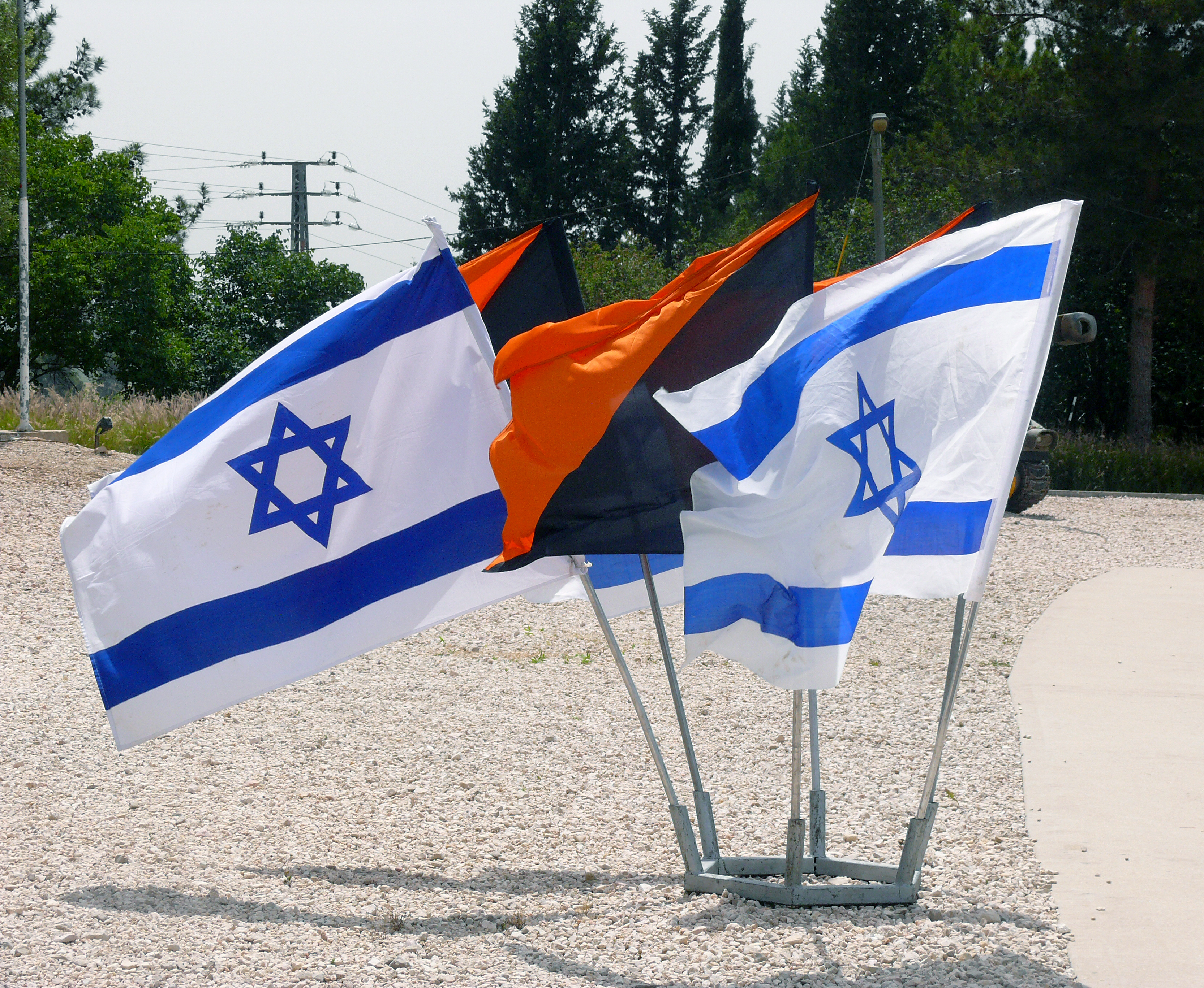 Flags of Israel and Israel Combat Engineering Corps